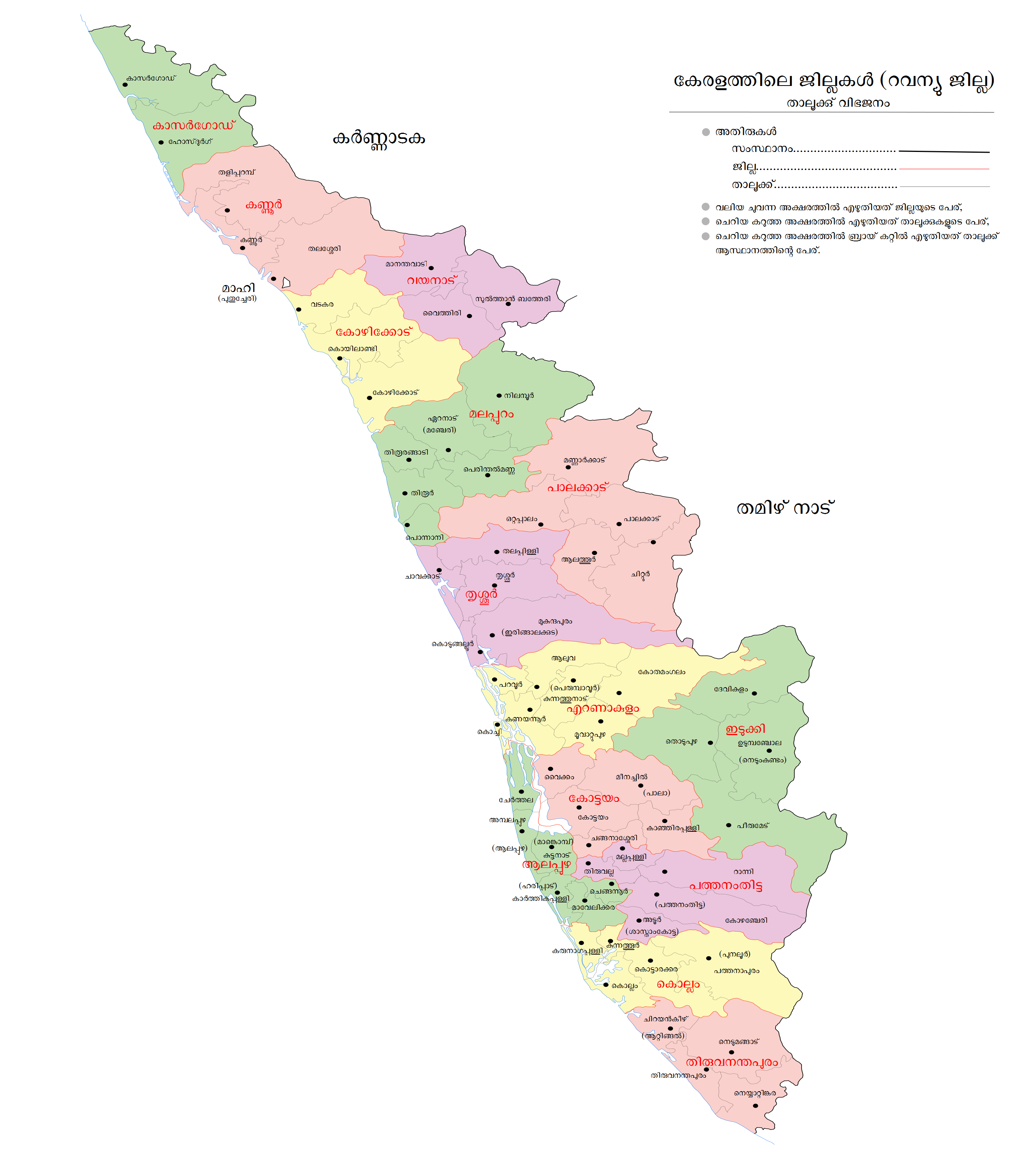 Kerala administrative divisions (താലൂക്ക് വിഭജനം - റവന്യൂജില്ല) 2011, PNG version, Malayalam